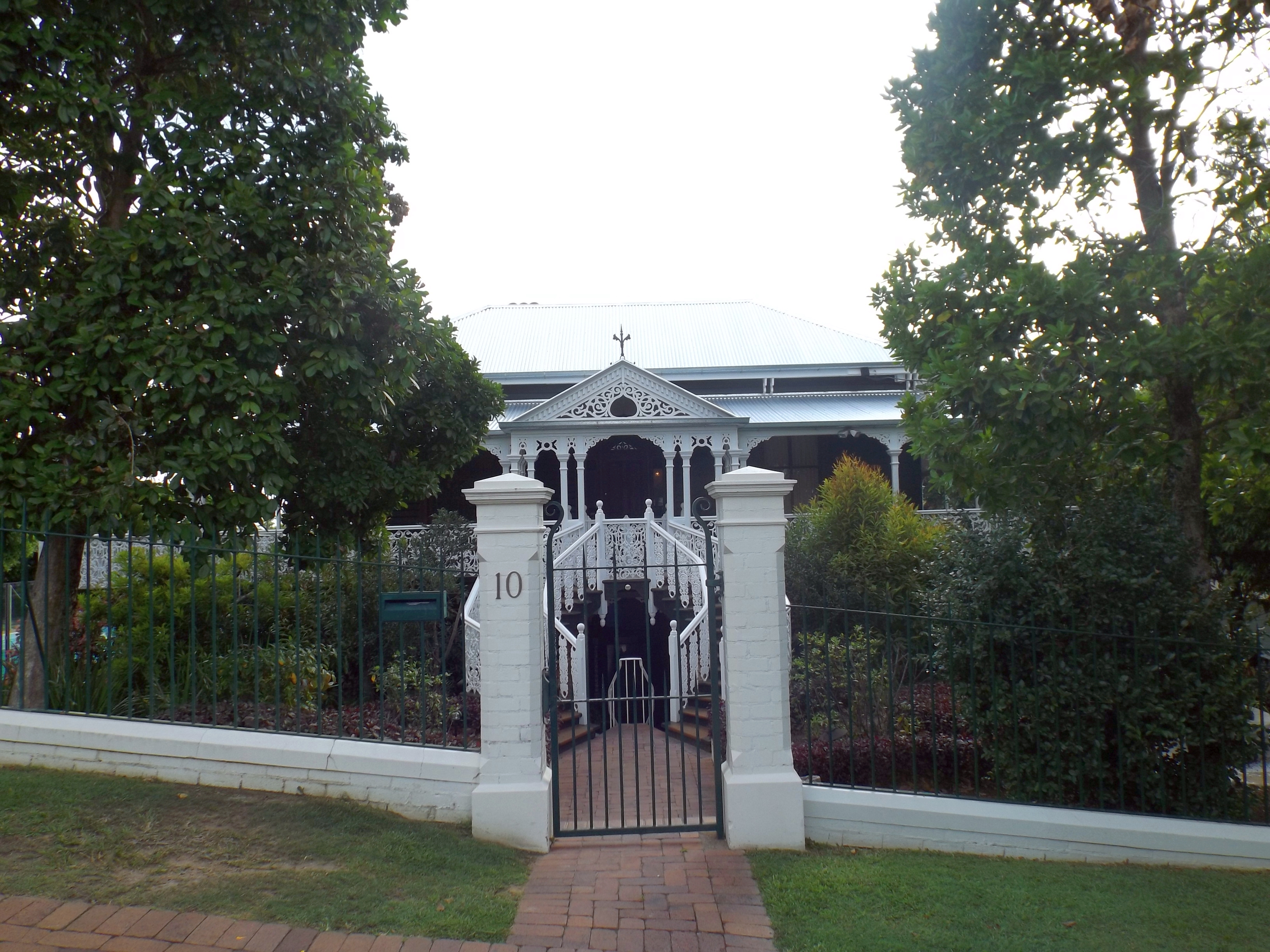 Photo of the entrance to the Warrawee residence at Toowong, Brisbane, Queensland, Australia.